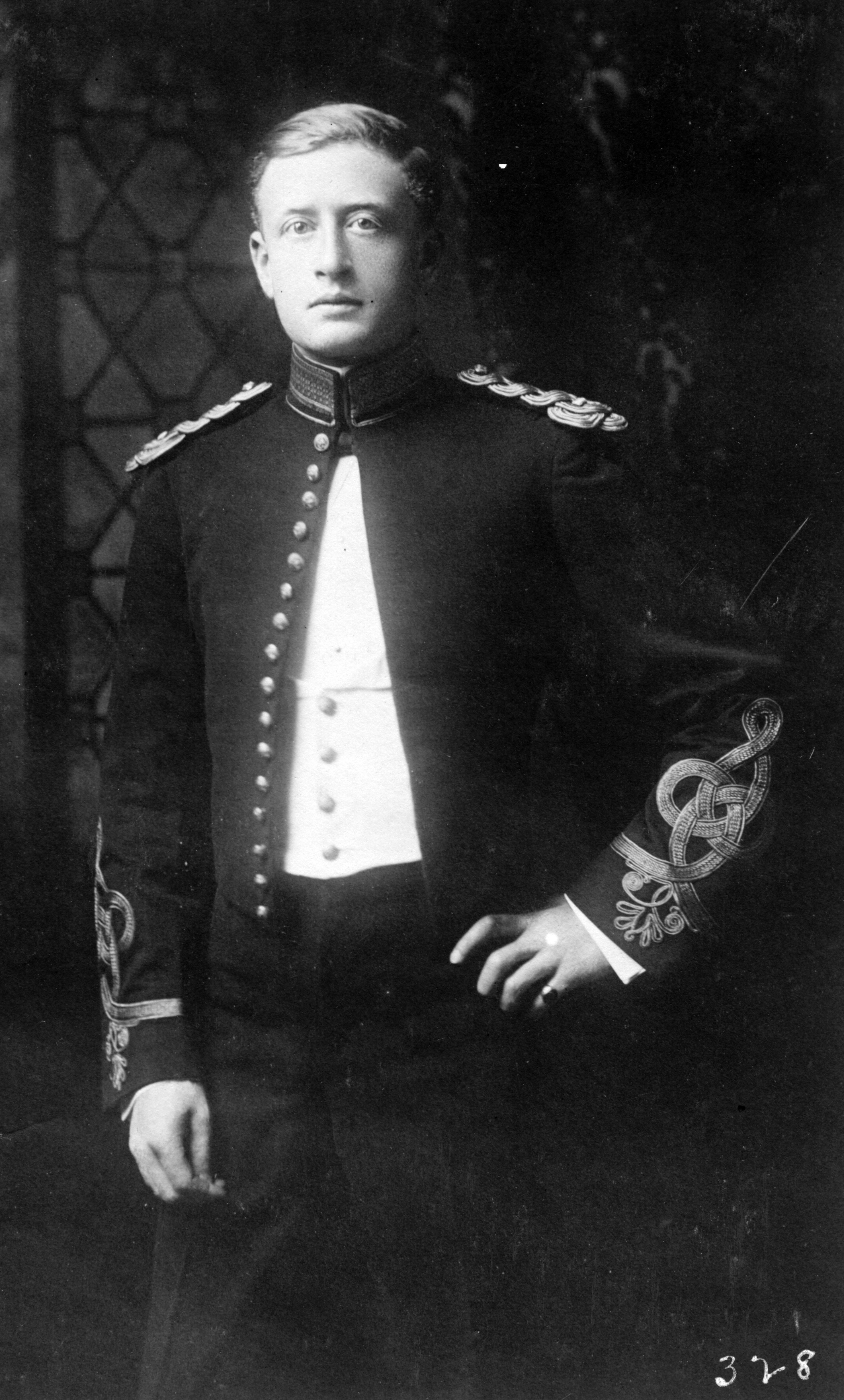 Emile Phillips Moses (May 27, 1880 - December 22, 1965) was a distinguished officer in the United States Marine Corps with the rank of Major General. A veteran of forty years of service and several expeditionary campaigns, Moses is most noted for his service as Commanding general, Marine Corps Recruit Depot Parris Island during World War II and for his efforts in the developing of Marine Corps Amphibious Warfare doctrine, especialy Landing Vehicle Tracked. Here shown as First lieutenant in 1908.